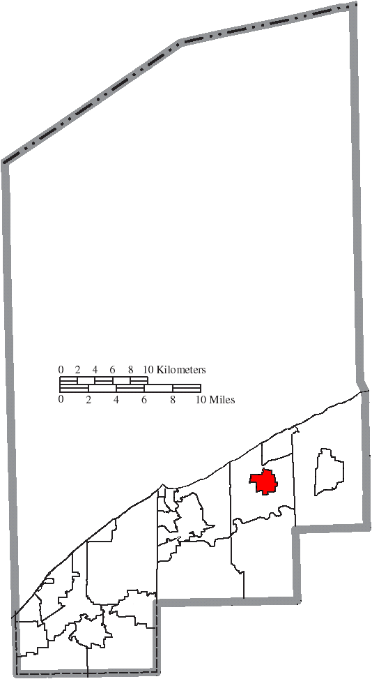 Map of the municipal and township boundaries of Lake County, Ohio, United States, as of the 2000 census, with the location of the village of Perry highlighted. Township borders are shown only in unincorporated areas in order to differentiate incorporated and unincorporated areas more clearly.